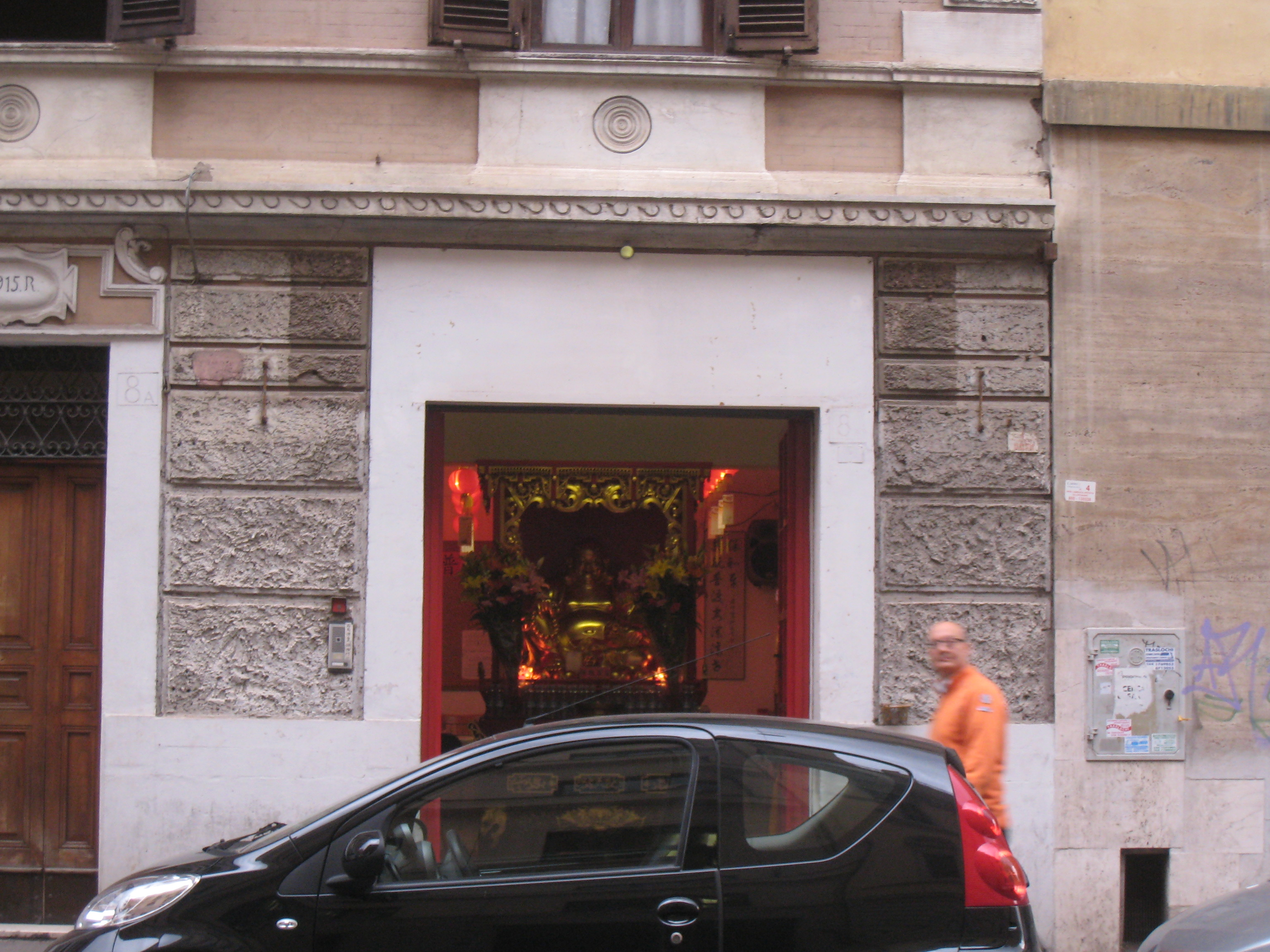 Pu Tuo Shan Temple